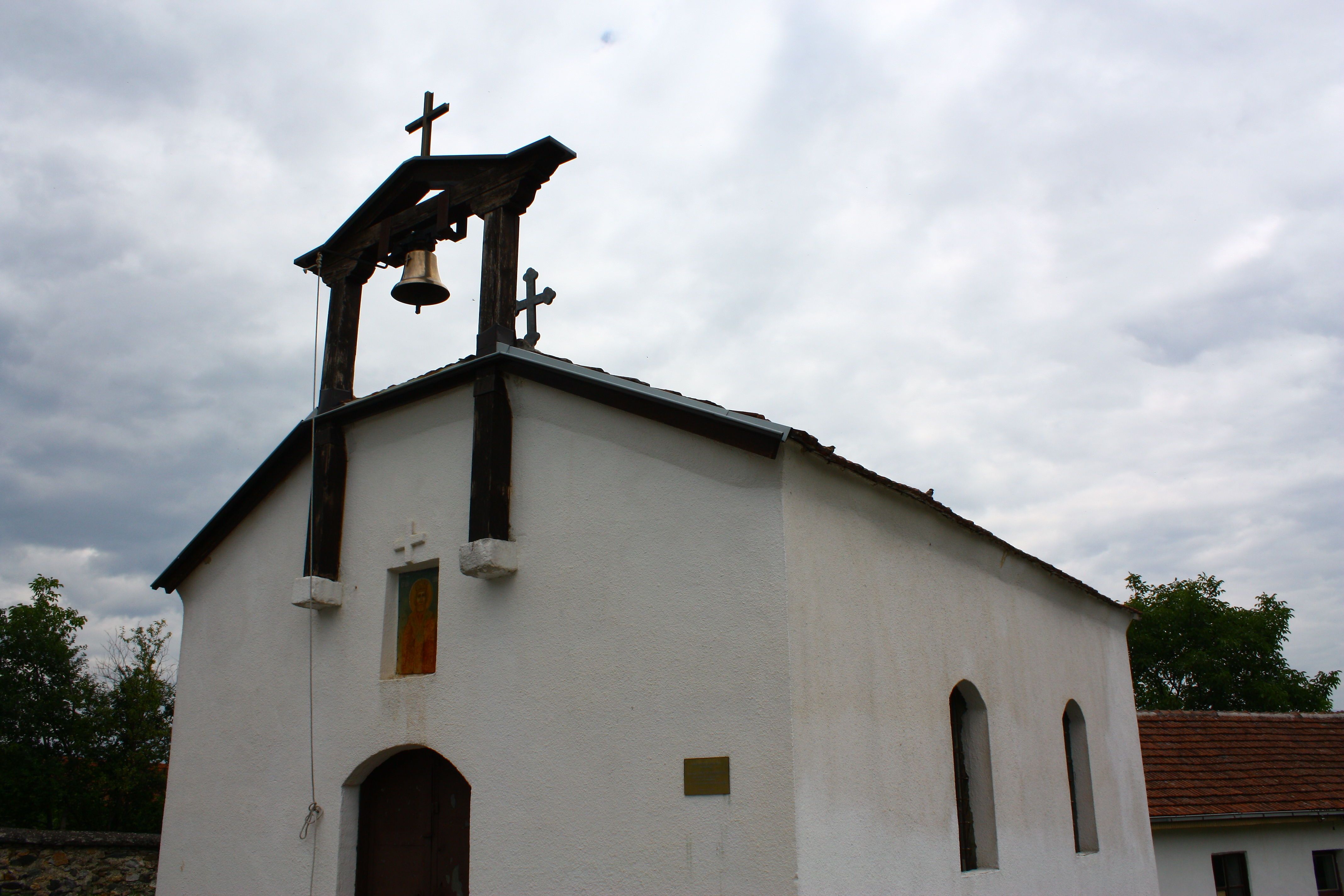 St. Nicholas Church in Zubovce, Macedonia